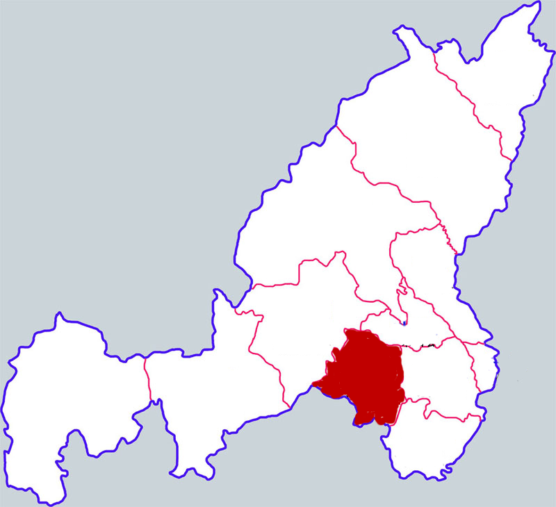 Location of Zizhou county in Yulin city, Shaanxi province, China